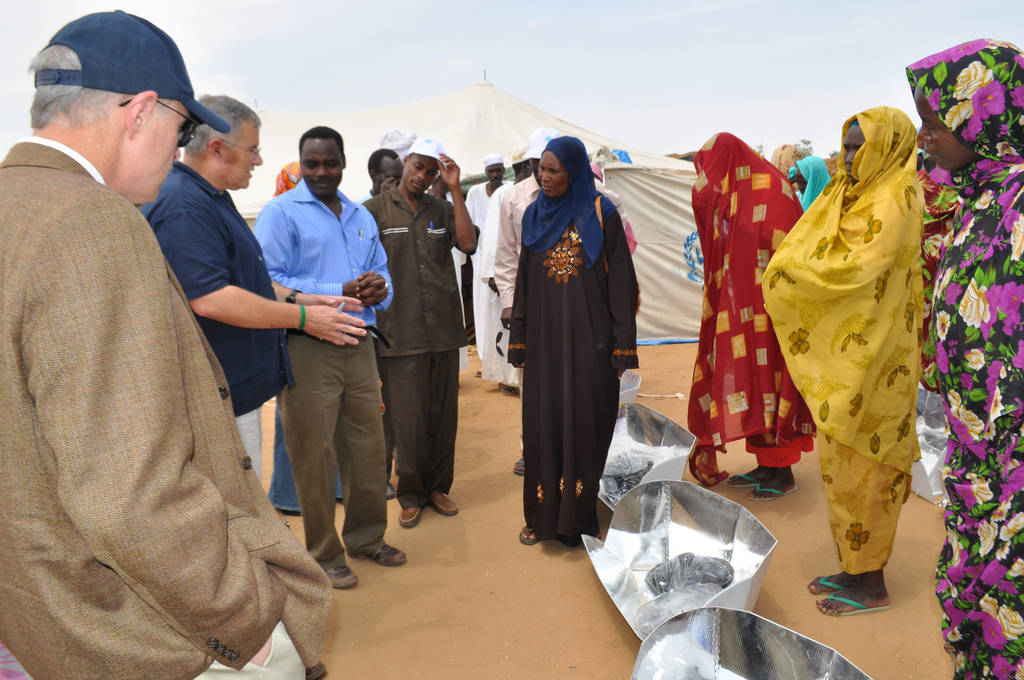 SE Gration looks on as women in the Abu Shouk IDP Camp are taught how to use new solar cookers.